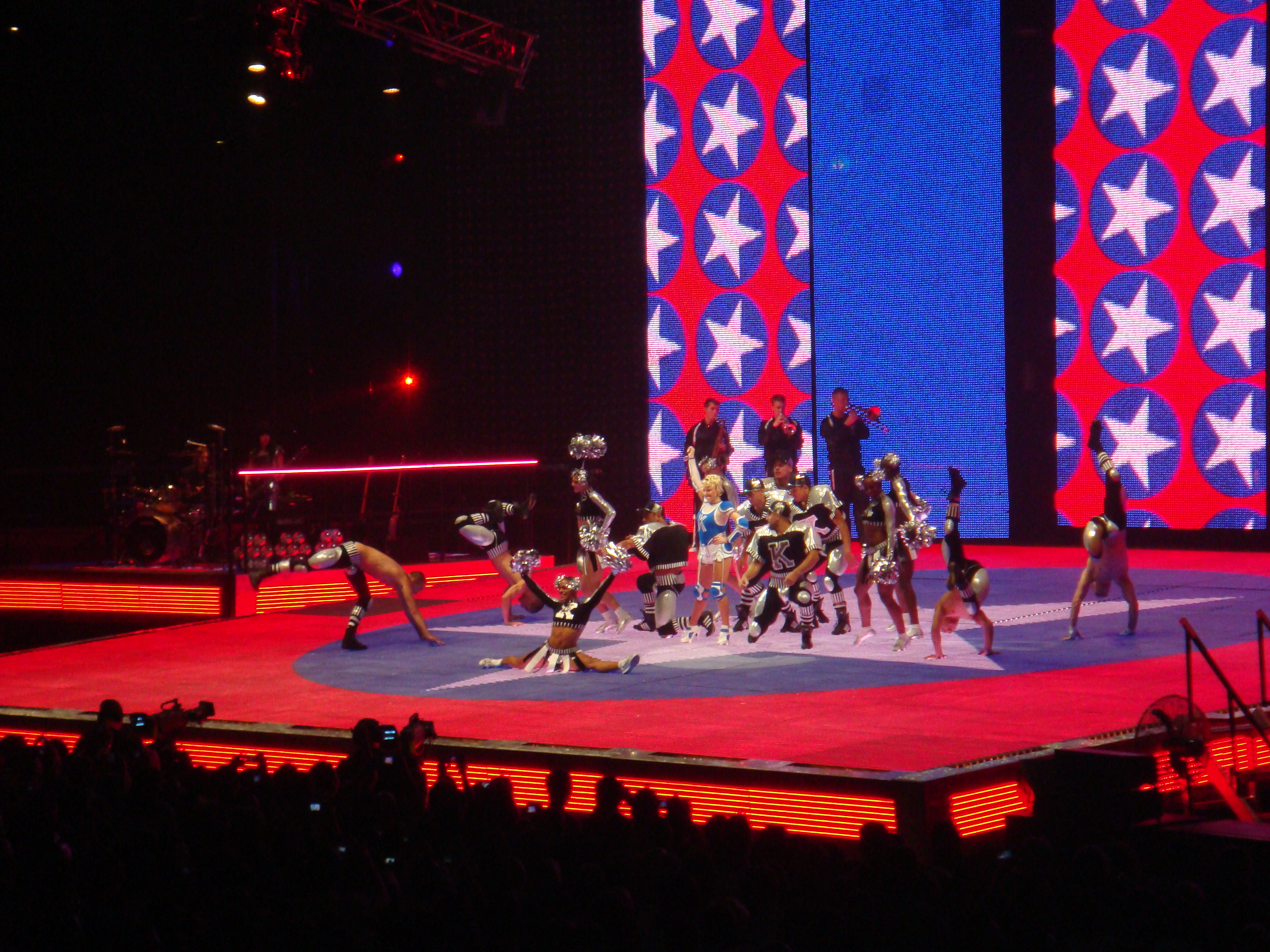 Kylie Minogue KYLIEX2008